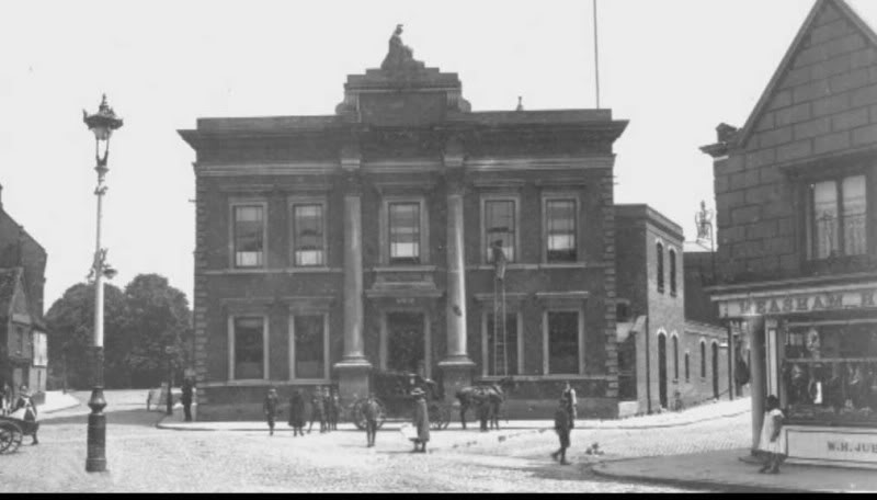 The Atheneum, KIngs Lynn